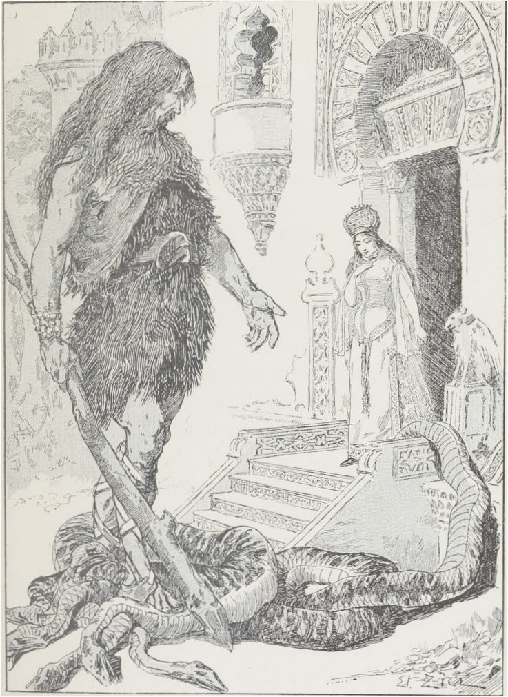 Jean-de-l'Ours defeats serpent, captive princess appears on the threshold